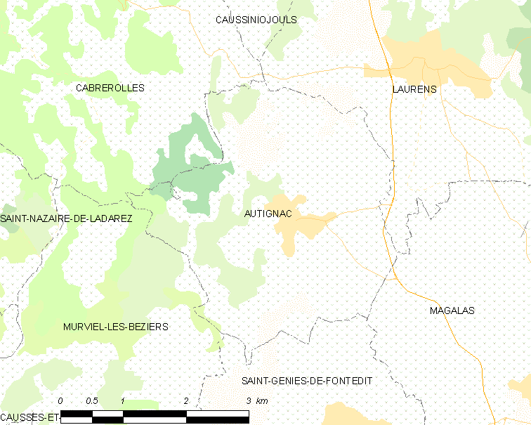 Map commune FR insee code 34018.png - Autignac